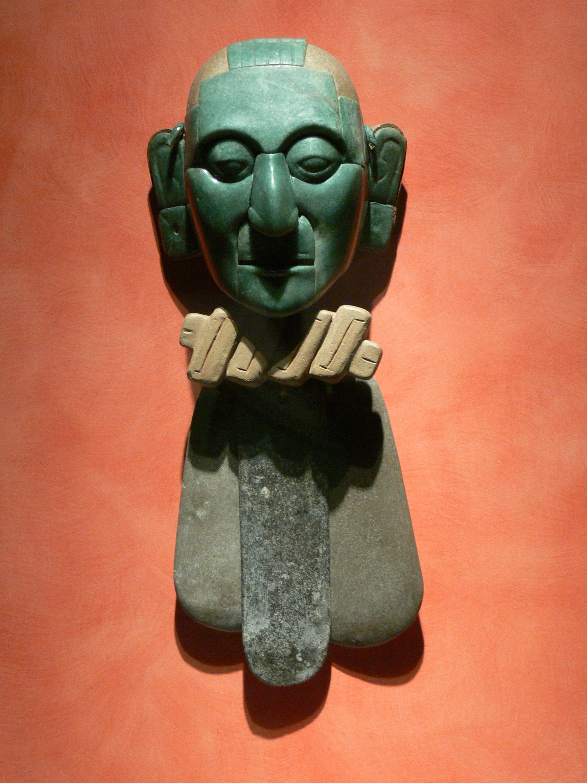 National Museum of Anthropolgy in Mexico City. Funerary offering for king Pakal of Palenque